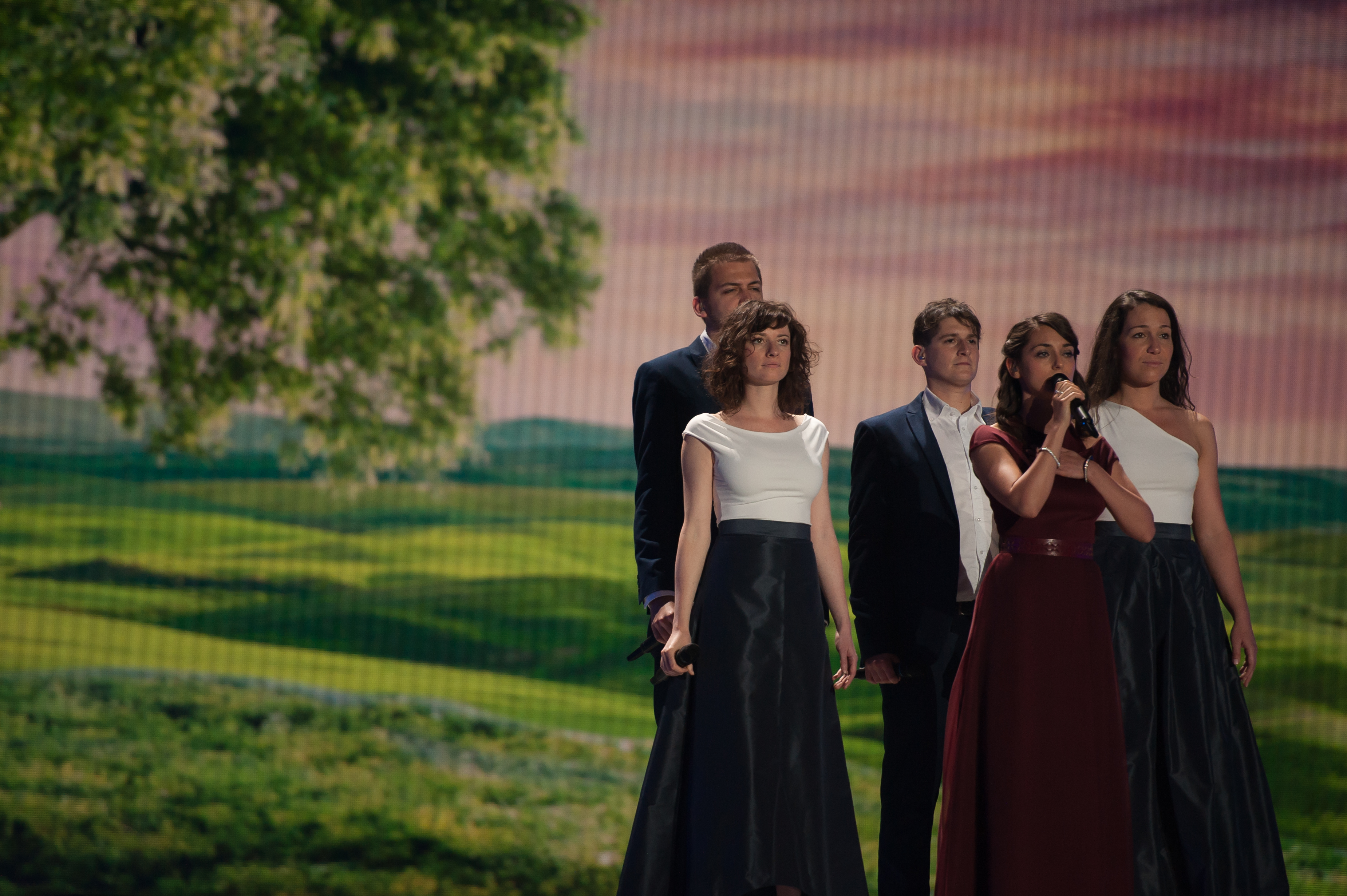 Eurovision Song Contest Vienna 2015: Boggie